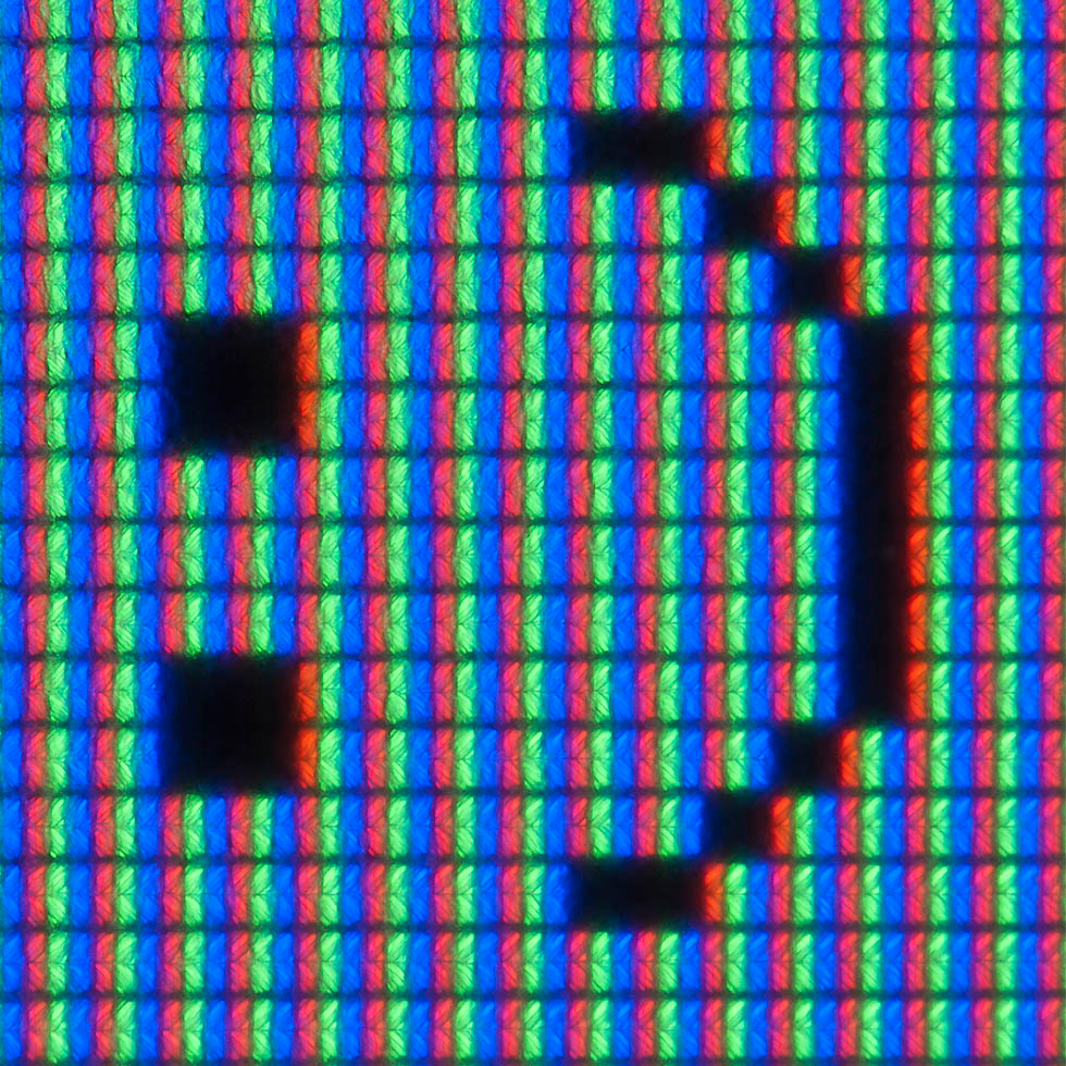 Close-up picture of pixels creating a smiley face on a computer screen.